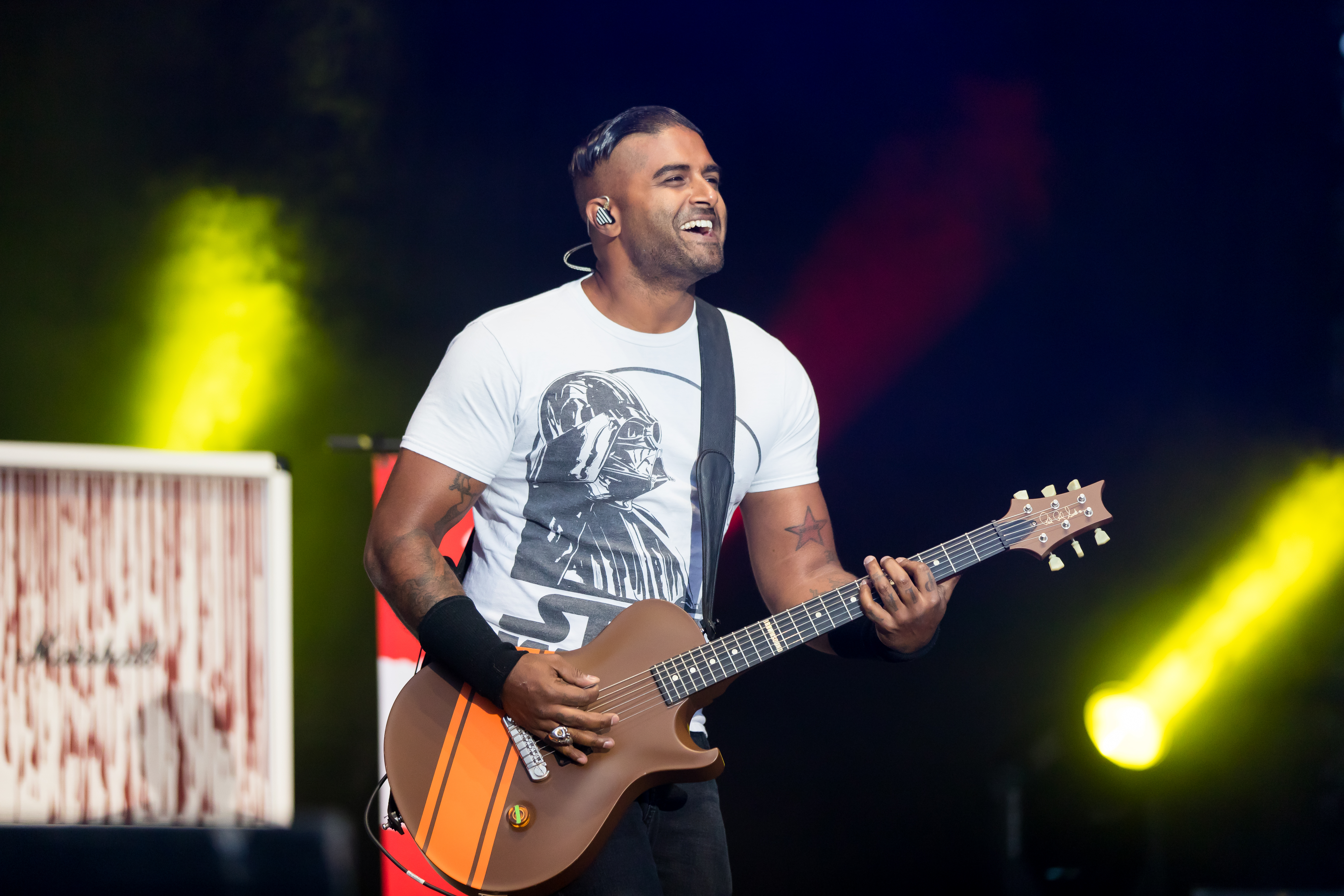 Sum 41 during Rocco del Schlacko 2016 at , Püttlingen, Saarland, Germany on 2016-08-11, Photo: Sven Mandel